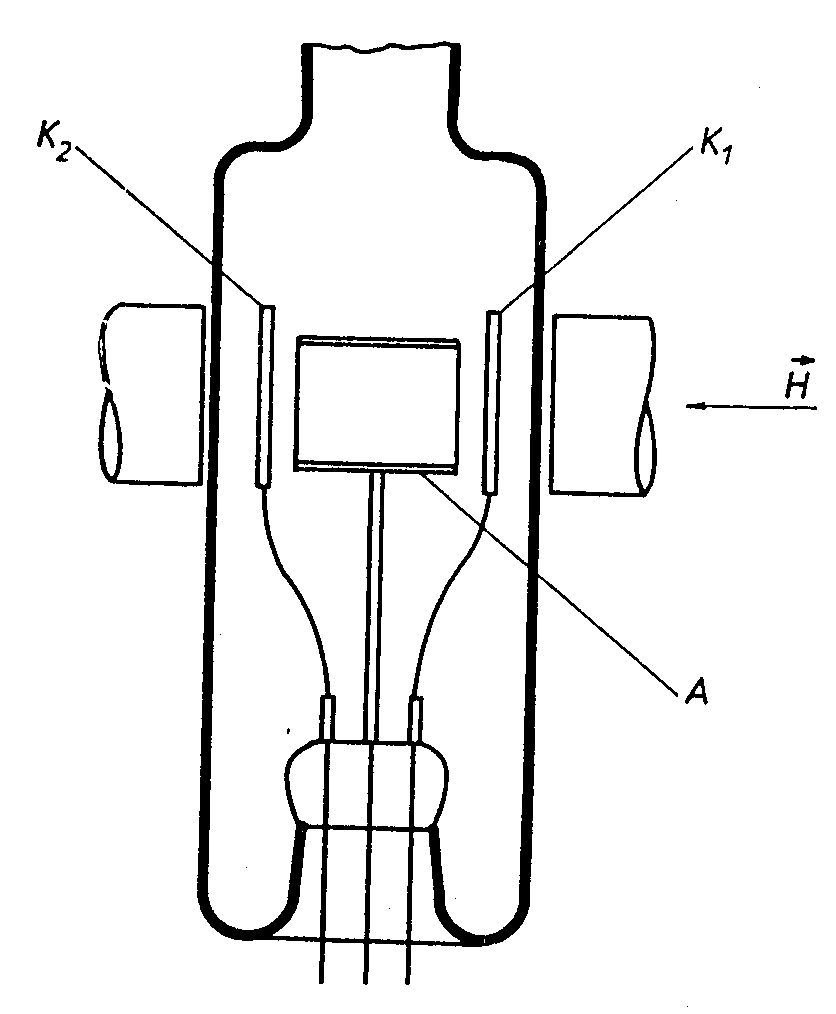 Penning manometer